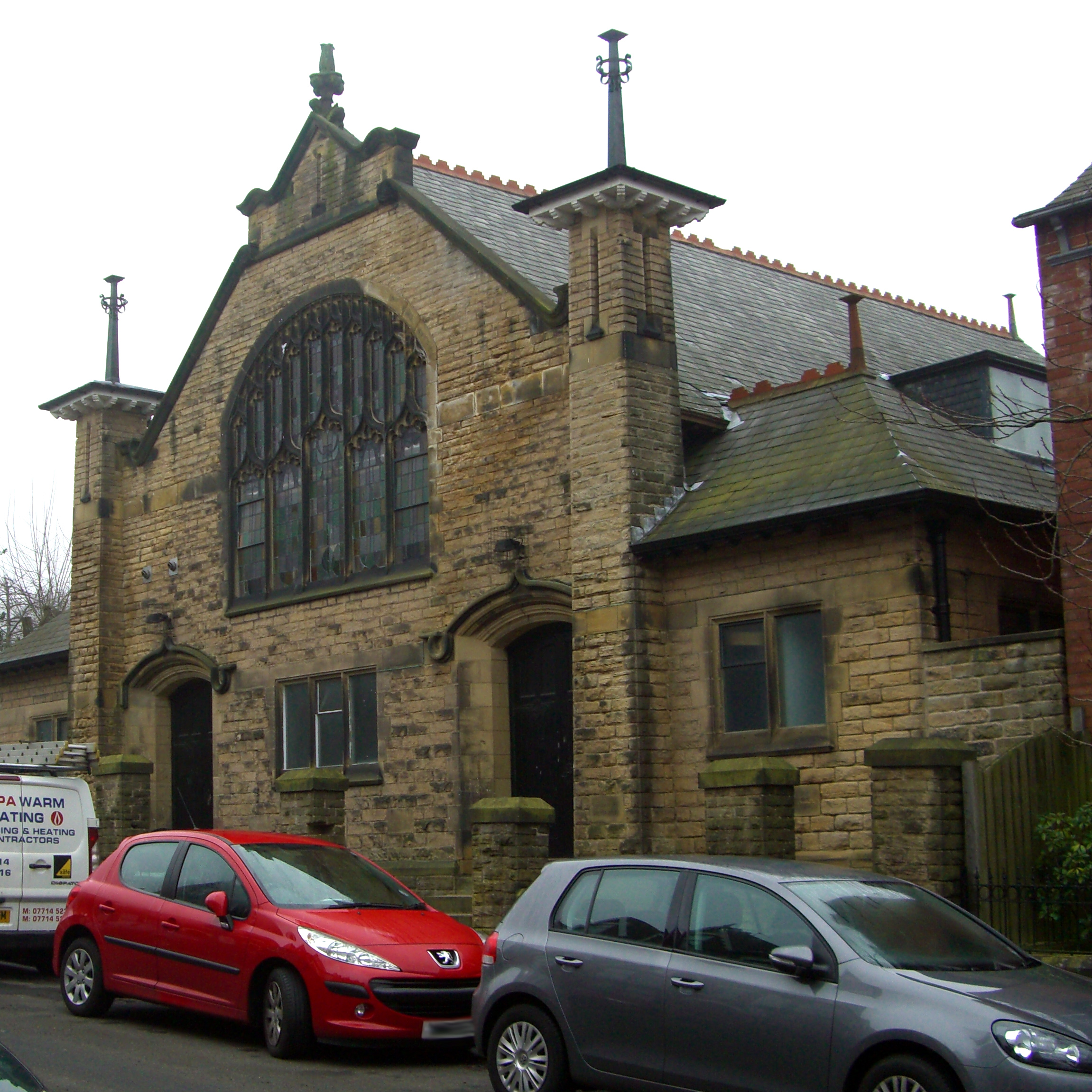 The original Banner Cross Methodist Church facing Glenalmond Road, built in 1907. It was superseded by a new bigger church in 1929 and now serves as additional rooms for activities. It is a Grade II Listed Building designed by George Baines and son.